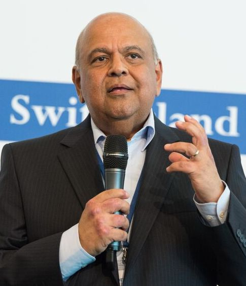 Pravin Gordhan.